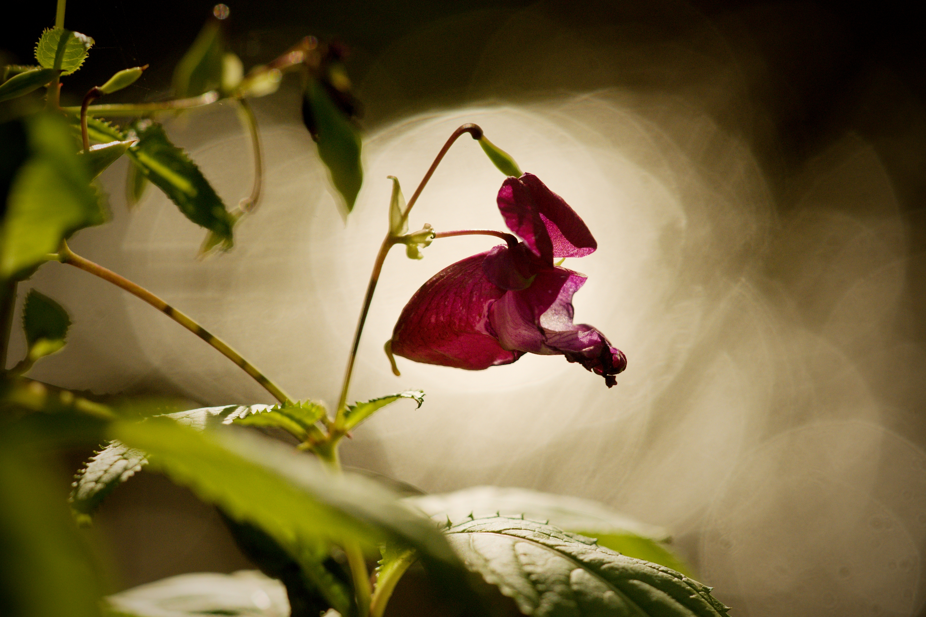 Invasive plant Impatiens glandulifera